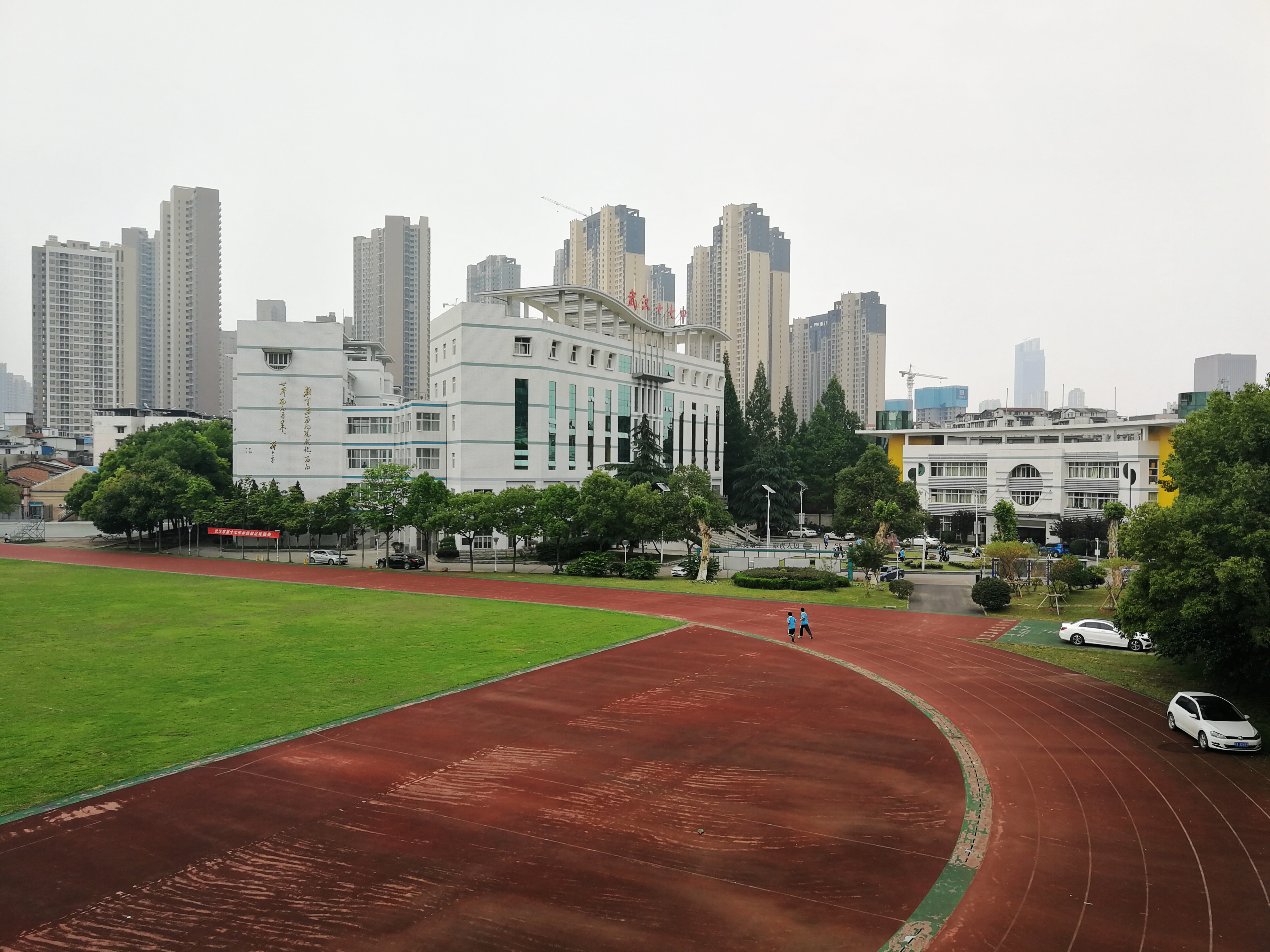 Main Buildings of Wuhan No.17 High School（2018）